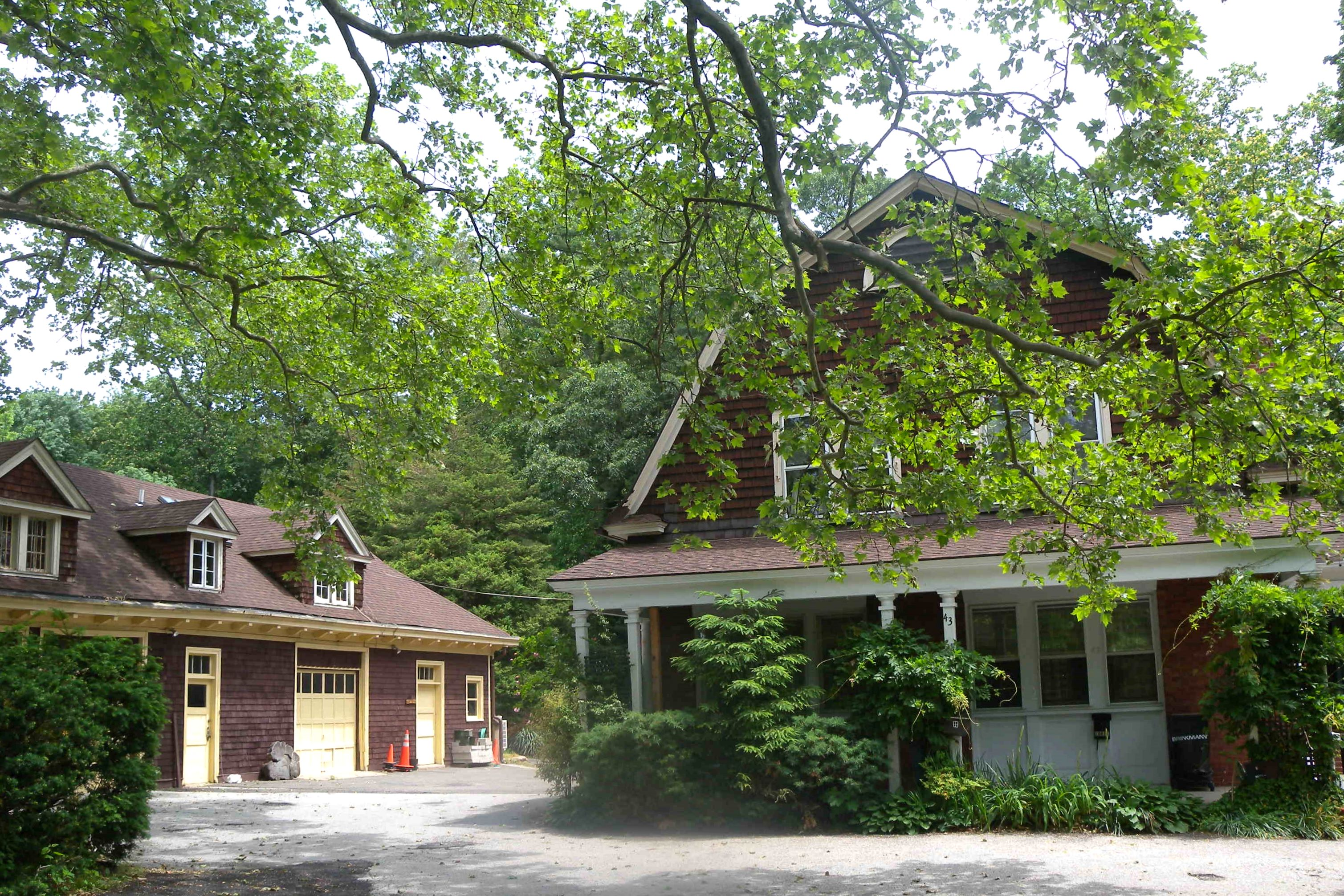 Looking northeast at buildings of Science Museum on a mostly sunny midday.